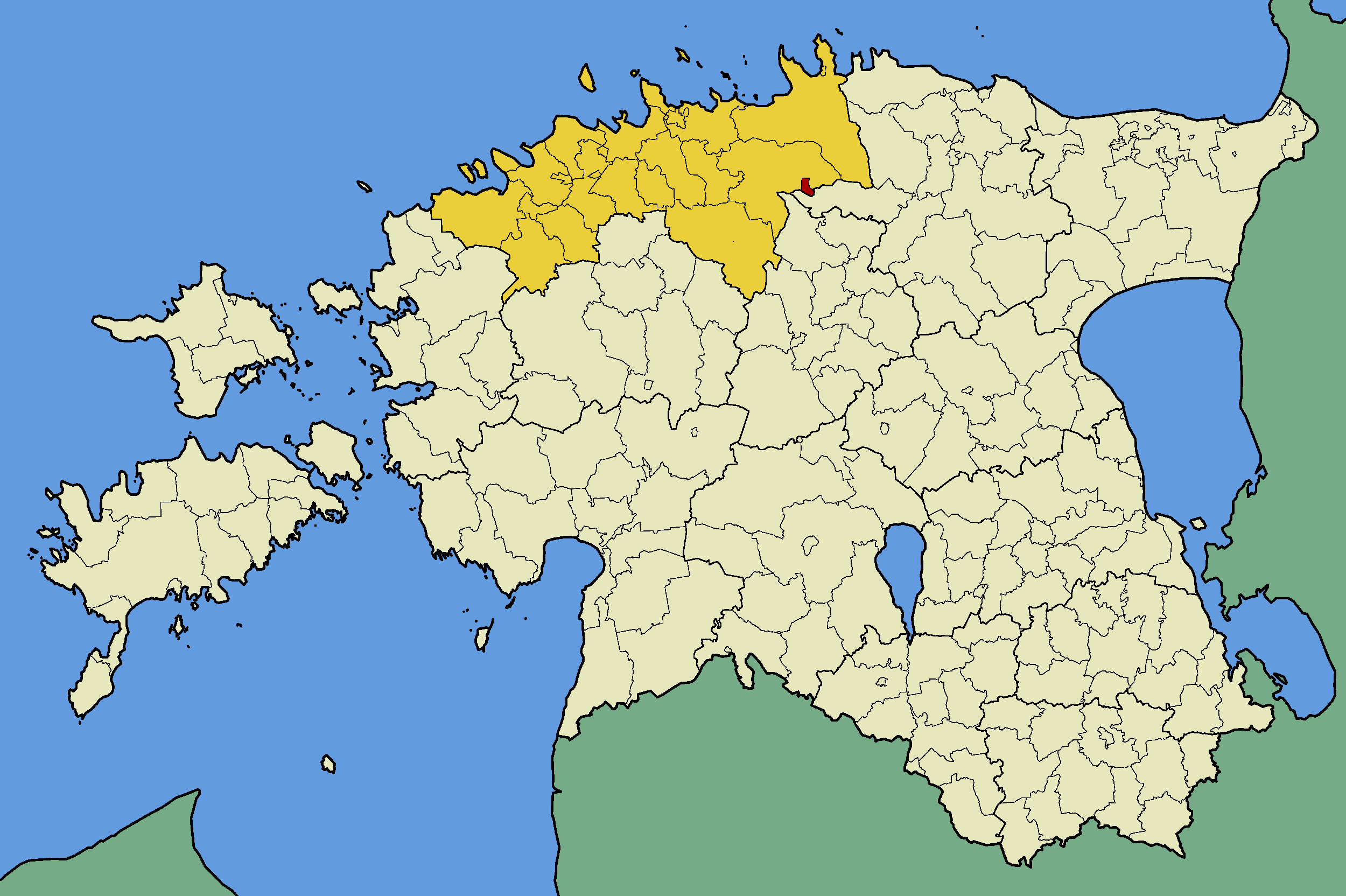 Map of Estonia with borders of municipalities (parishes). Harju county and Aegviidu municipality (parish) emphasized.